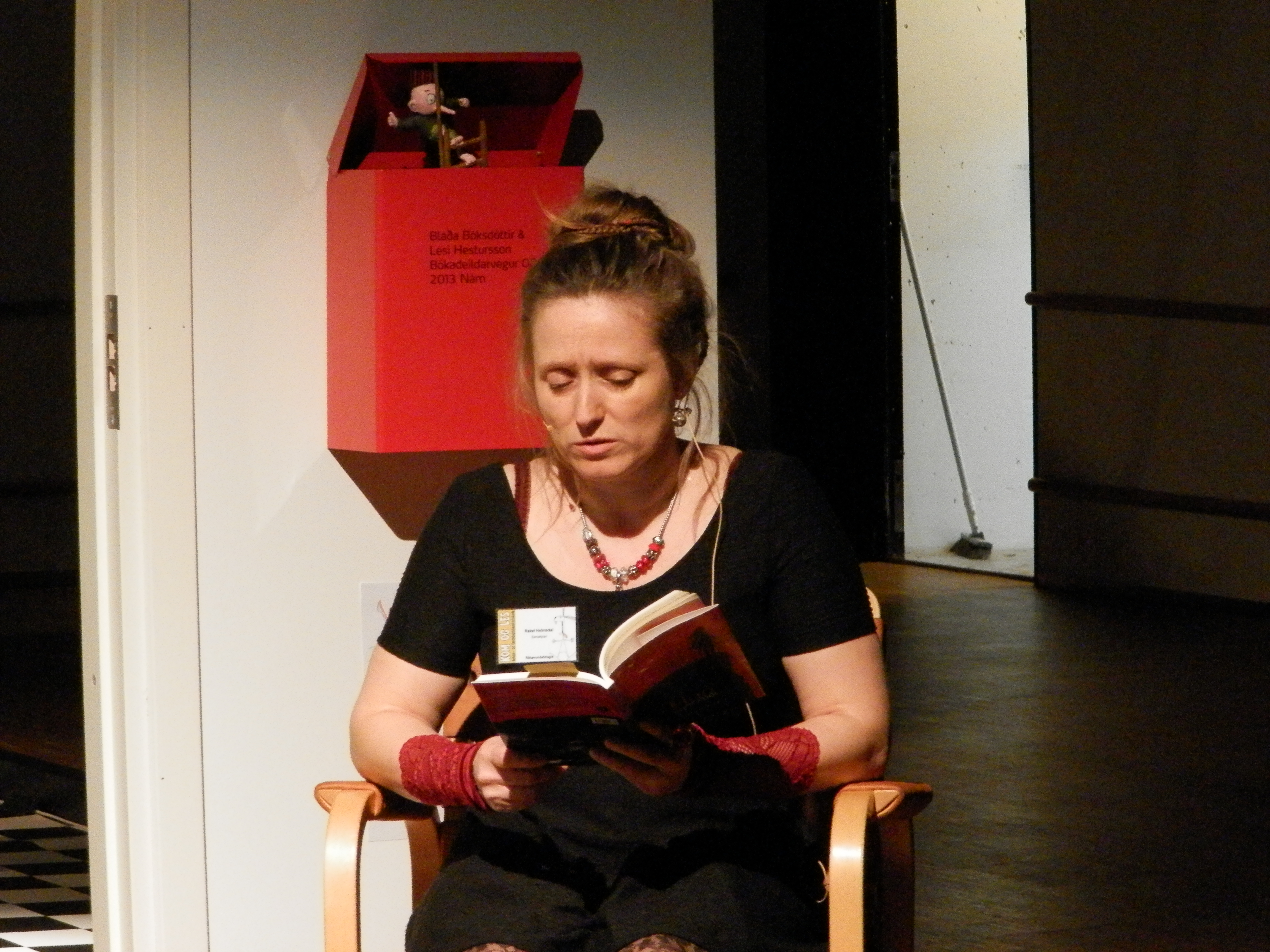 Rakel Helmsdal is a Faroese writer. In 2014 she published a novel for the youth with the title "Hon, sum róði eftir ælaboganum" (She, who was rowing for the rainbow). This photo was taken on 5 April 2014 in the Nordic House in Tórshavn at a Children's and Youth Book Festival. "Kom og les" (Come and read). Here she is reading from her novel.